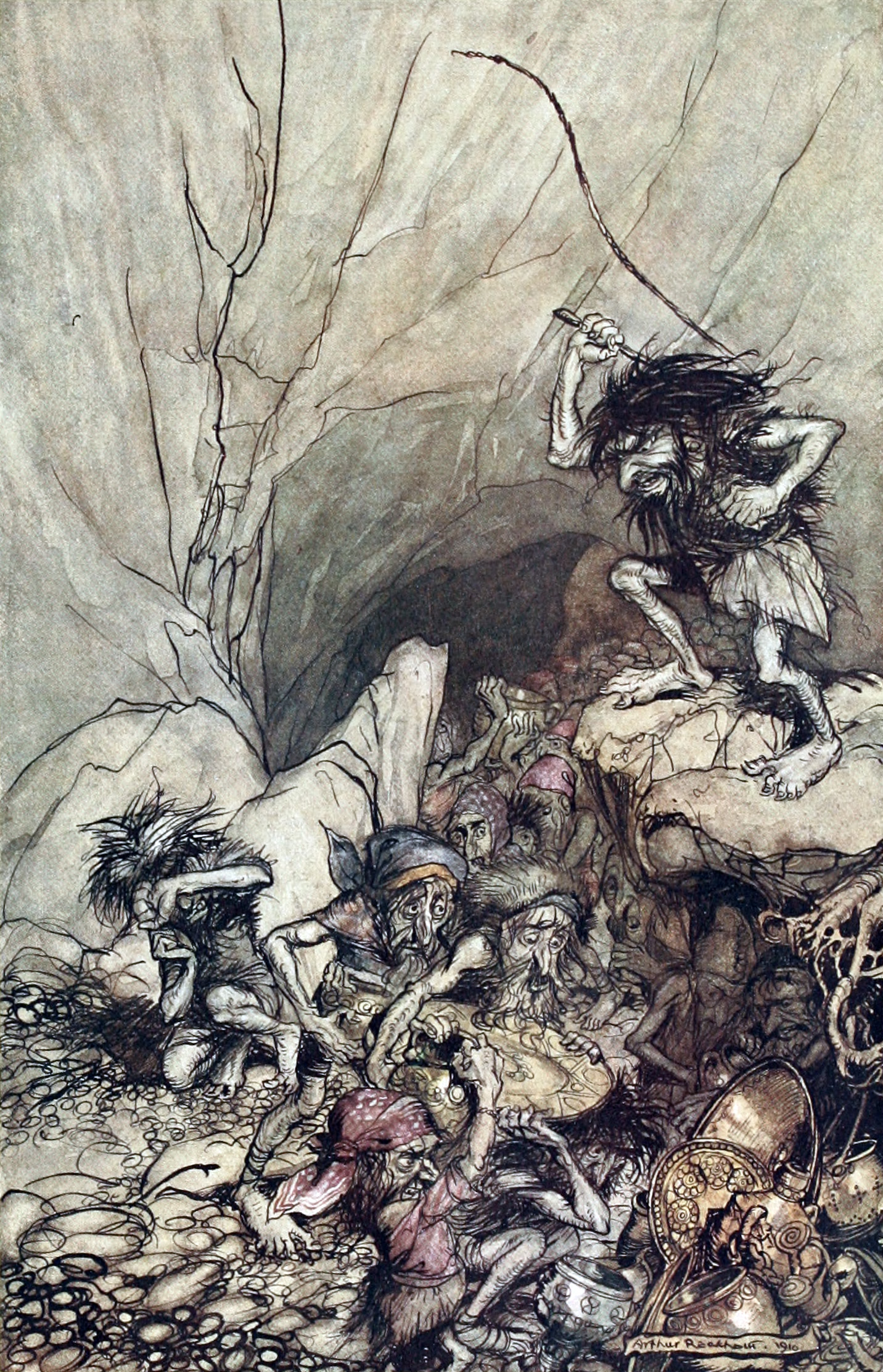 Alberich drives in a band of Niblungs laden with gold and silver treasure.